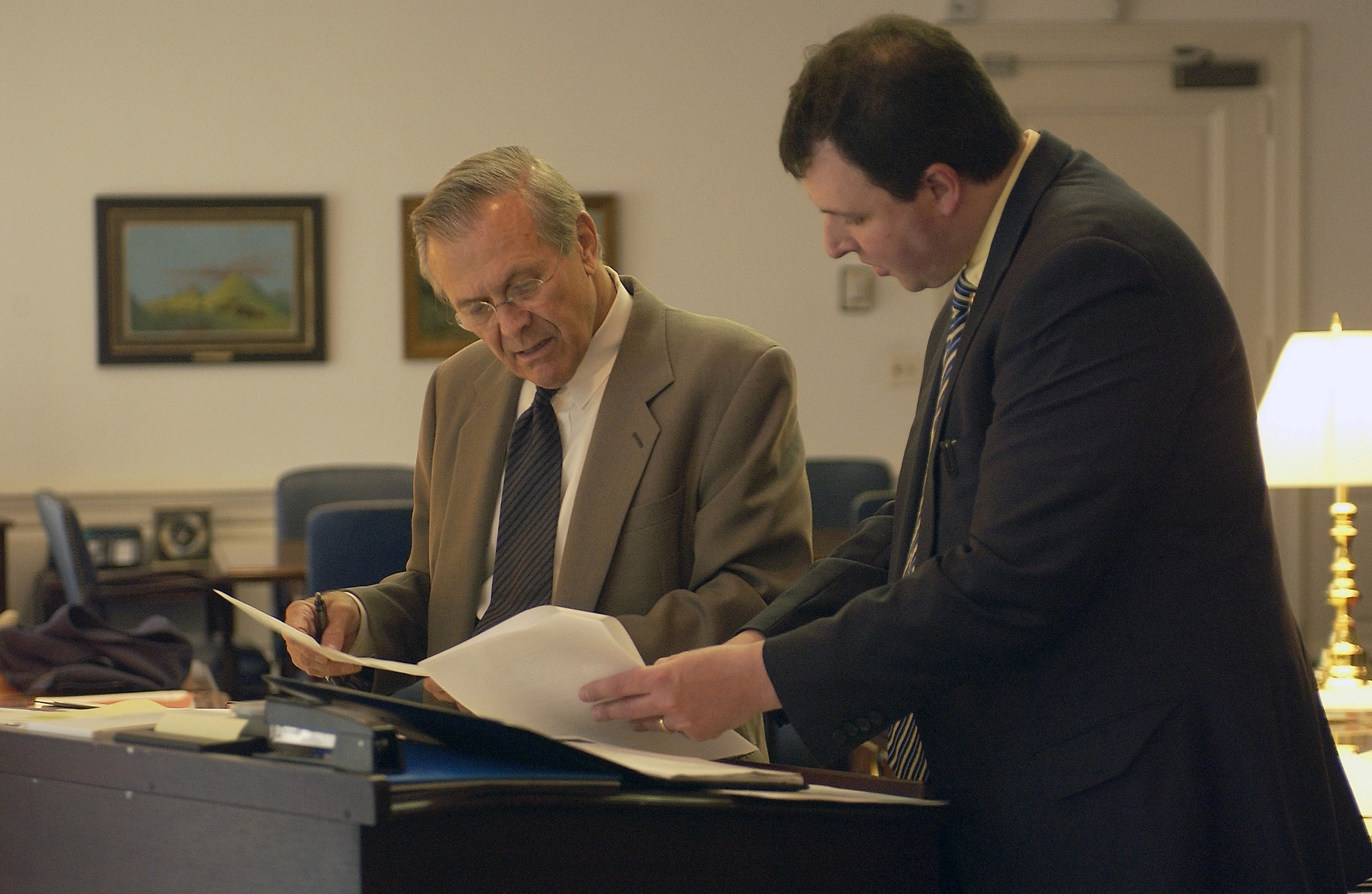 The Honorable Donald H. Rumsfeld, U.S. Secretary of Defense speaks with his chief speechwriter, Marc Thiessen, prior to giving reporters an operational update on Operation Iraqi Freedom. (DoD photo by Tech. SGT. Andy Dunaway) (Released), 10/21/2003